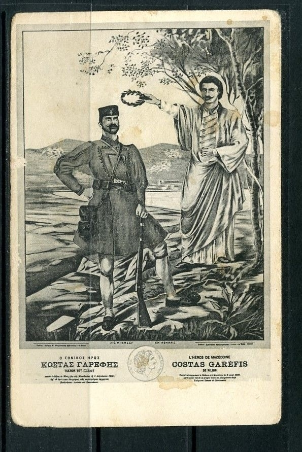 Kostas Garefis